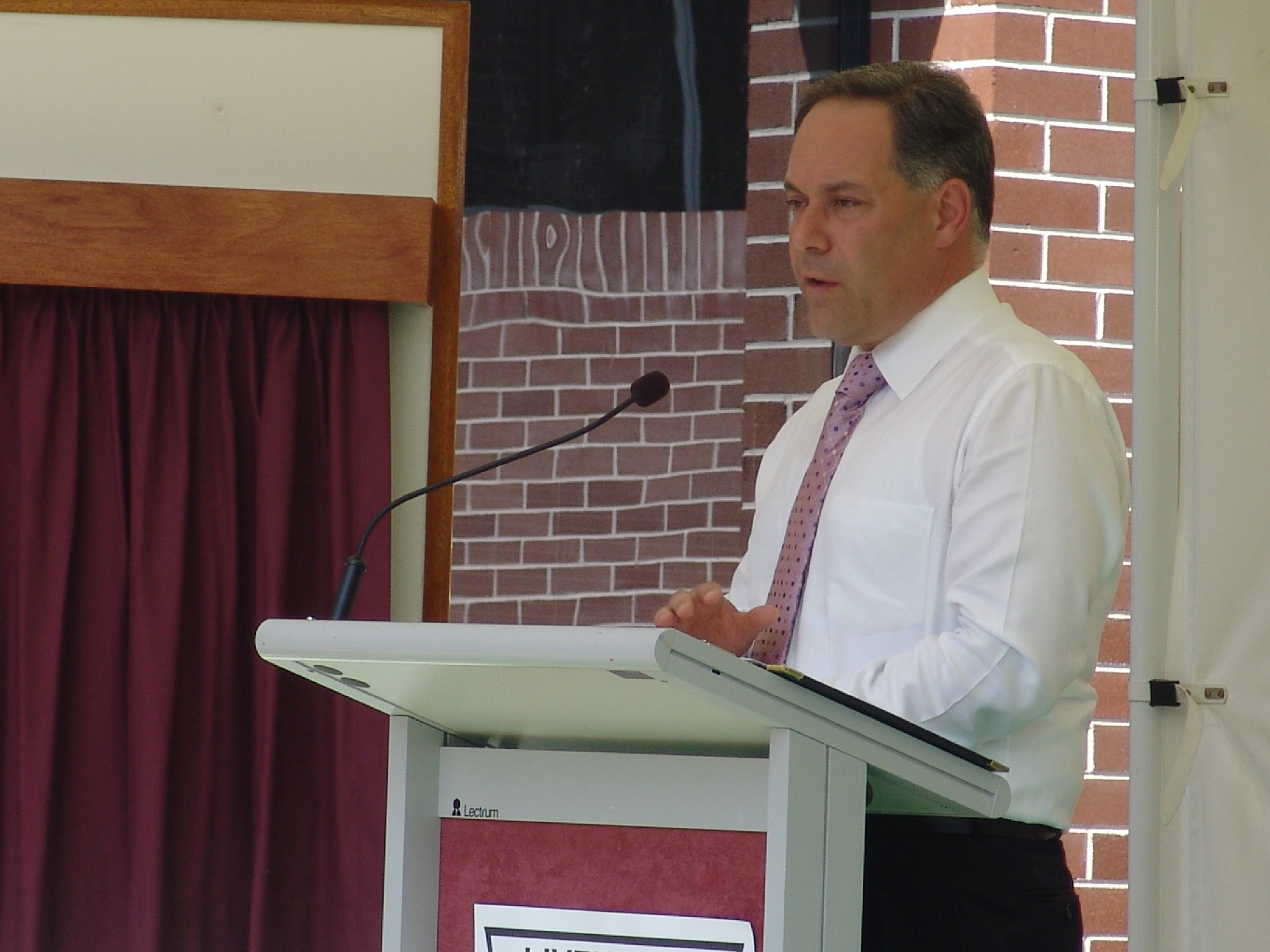 Morris Iemma gives a speech at Liverpool Hospital